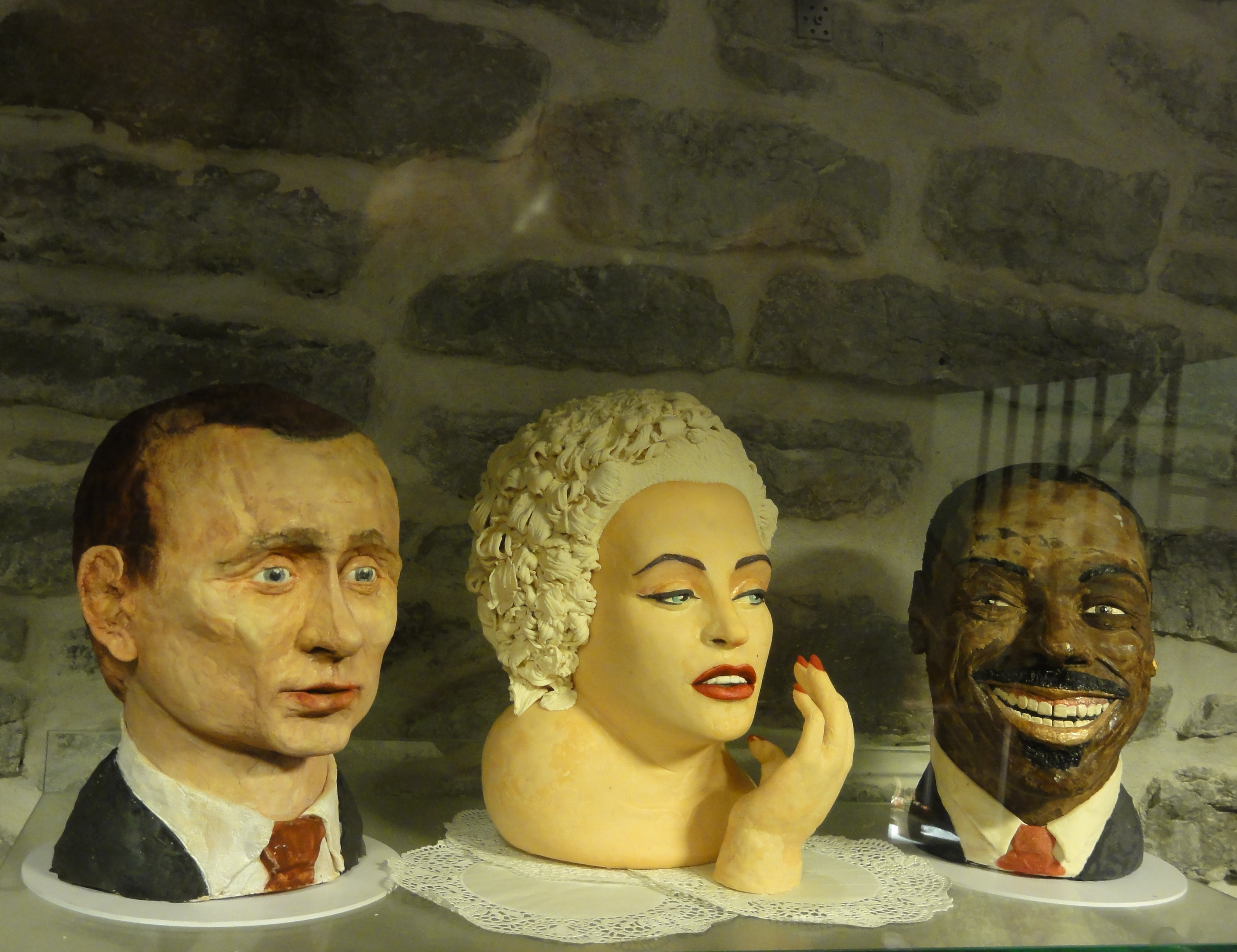 Chocolate house in Tallinn